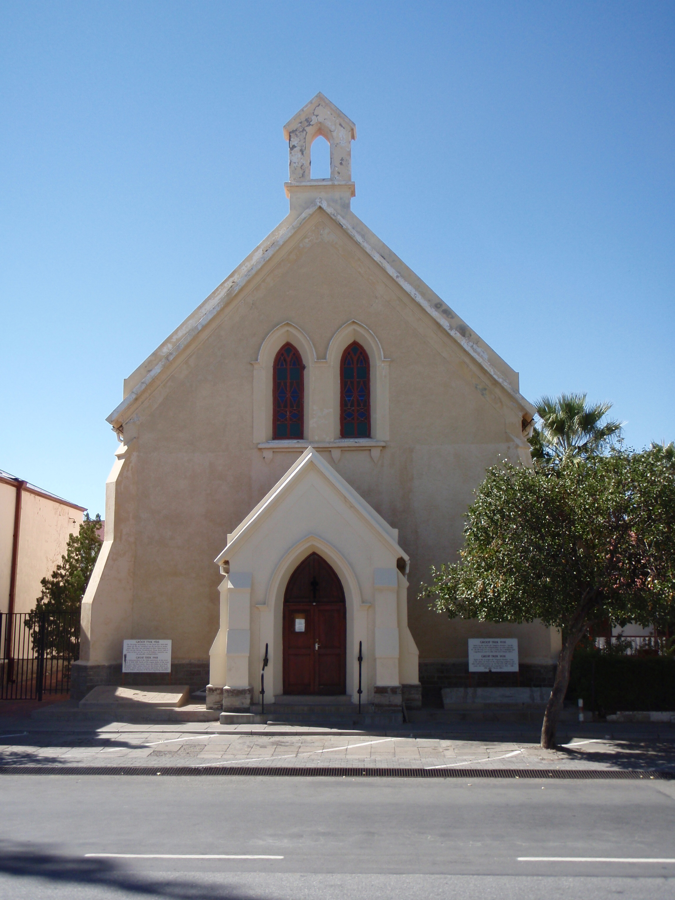 Old style church in Donkin Street, Beaufort West, South Africa